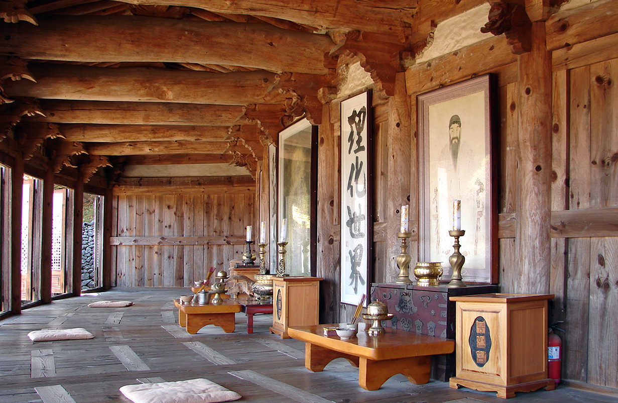 Interior of Cheongung, or the main Shrine Hall of the Three Sages, on the grounds of Samseonggung. Samseonggung Shrine is dedicated to the traditional worship of the three mythical creators of Korea: Whanin, Whanung, and Dangun.